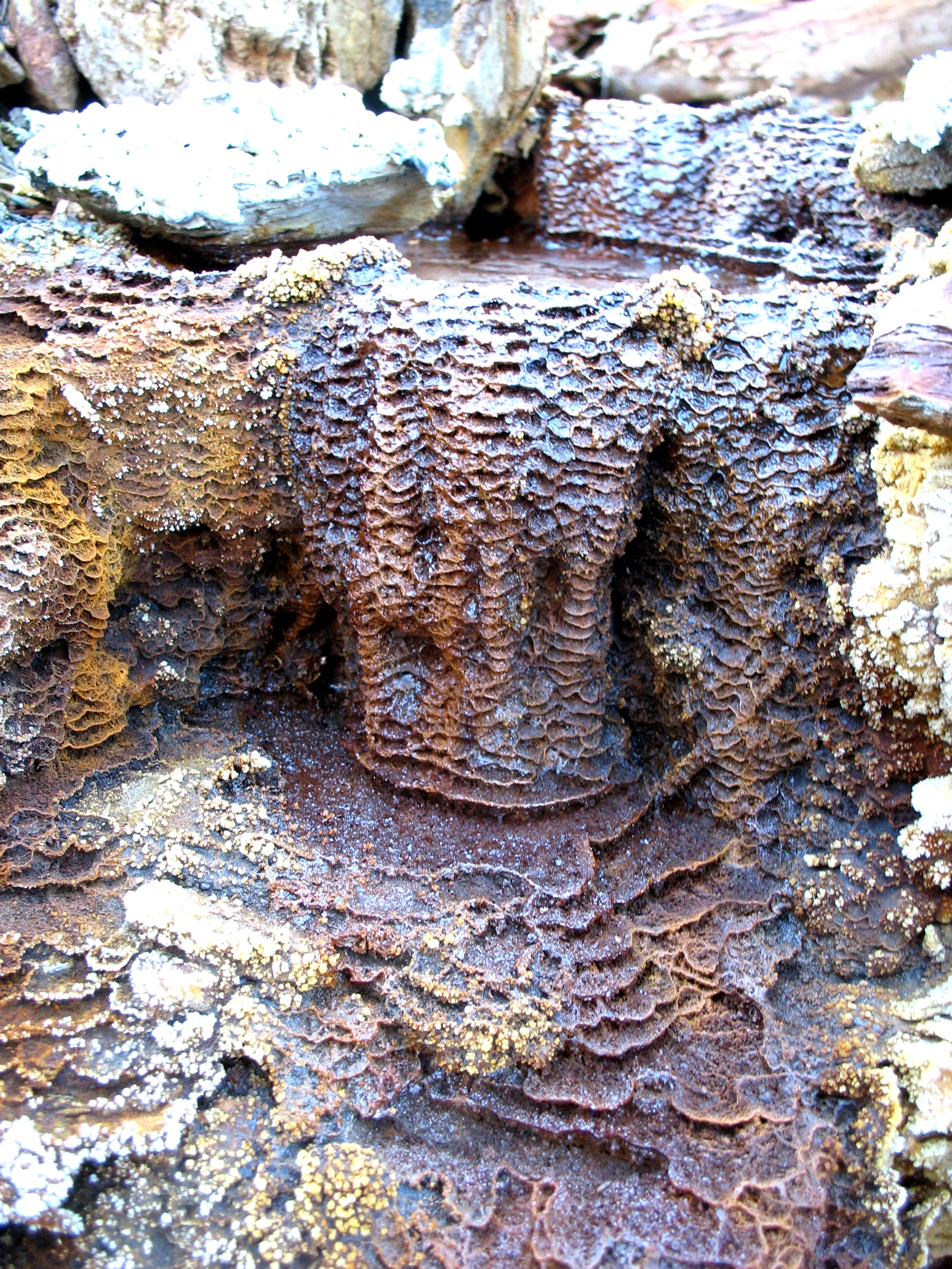 Ferric "travertine". Arroyo de la Peña de Hierro (in Spanish Iron Rock Creek), Nerva (Huelva, Spain). Mineralogy: hydroxysulphates and oxyhydroxides of iron (III) as schwertmannite, jarosite and goethite (cf. Asta, M. P.; Cama, J. y Ayora, C. (2008) "Atenuación natural de arsénico en el drenaje ácido de mina". Macla, 9: 35-36).